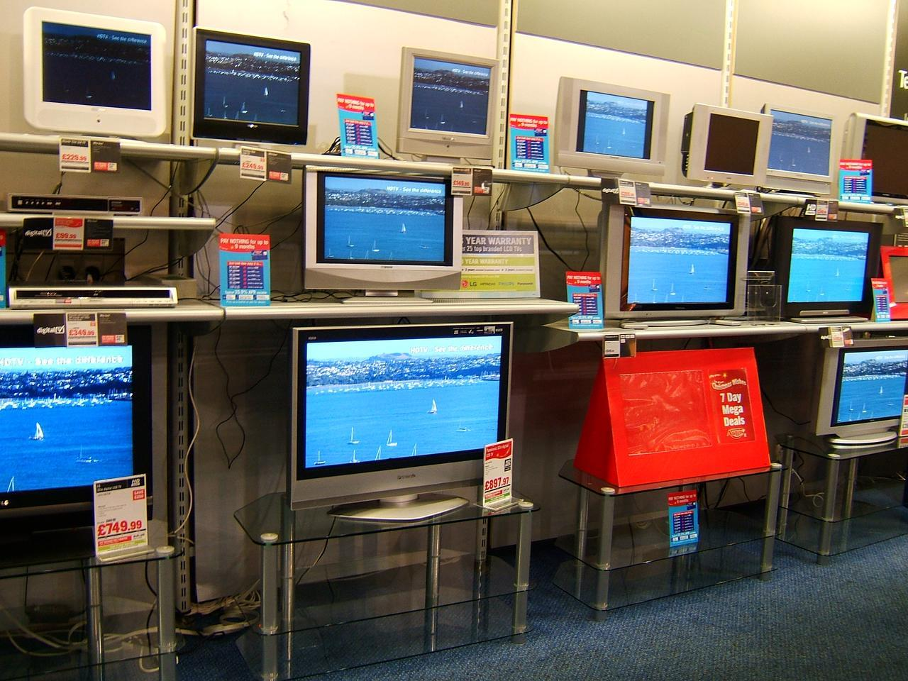 High Def TV's in Jan sales, Argos